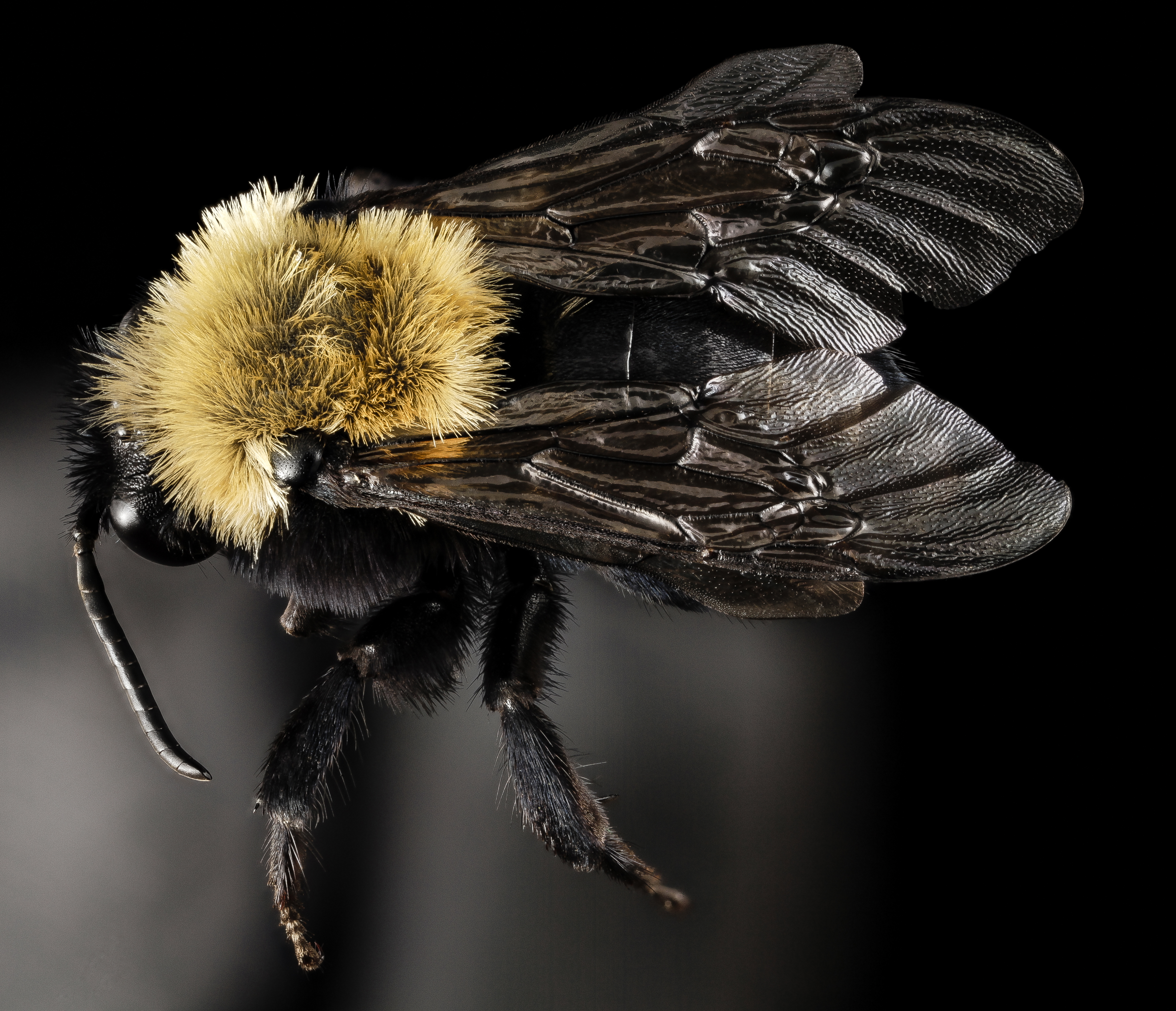 Melecta pacifica. A new state record for Maryland...captured right outside my Laboratory's front lawn! A few days ago I was watching and collecting bees out of a lovely clay filled bare patch of soil that refuses to grow any grass and is thus a lovely colony of all sorts of interesting nesting bees, wasps, and ants. At one point I noticed a large bee coursing over the colony and my immediate impression was that this was a Melecta and that I should nab that baby. Fortunately my trusty net was at hand and it zig zagged in just the right way. I had been expecting to find this species at some point as its host (Anthophora abrupta) is around, though not common. Just goes to show you how much more we have to do to document simple bee distribution even. We are 100 years behind what we know about bird distributions ... or more. 03:11, 11 April 2016 (UTC)03:11, 11 April 2016 (UTC) 0 03:11, 11 April 2016 (UTC)03:11, 11 April 2016 (UTC) All photographs are public domain, feel free to download and use as you wish. Photography Information: Canon Mark II 5D, Zerene Stacker, Stackshot Sled, 65mm Canon MP-E 1-5X macro lens, Twin Macro Flash in Styrofoam Cooler, F5.0, ISO 100, Shutter Speed 200 Beauty is truth, truth beauty - that is all Ye know on earth and all ye need to know " Ode on a Grecian Urn" John Keats You can also follow us on Instagram account USGSBIML Want some Useful Links to the Techniques We Use? Well now here you go Citizen: Basic USGSBIML set up: USGSBIML Photoshopping Technique: Note that we now have added using the burn tool at 50% opacity set to shadows to clean up the halos that bleed into the black background from "hot" color sections of the picture. PDF of Basic USGSBIML Photography Set Up: ftp://ftpext.usgs.gov/pub/er/md/laurel/Droege/How%20to%20Take%20MacroPhotographs%20of%20Insects%20BIML%20Lab2.pdf Google Hangout Demonstration of Techniques: or Excellent Technical Form on Stacking: Contact information: Sam Droege 301 497 5840